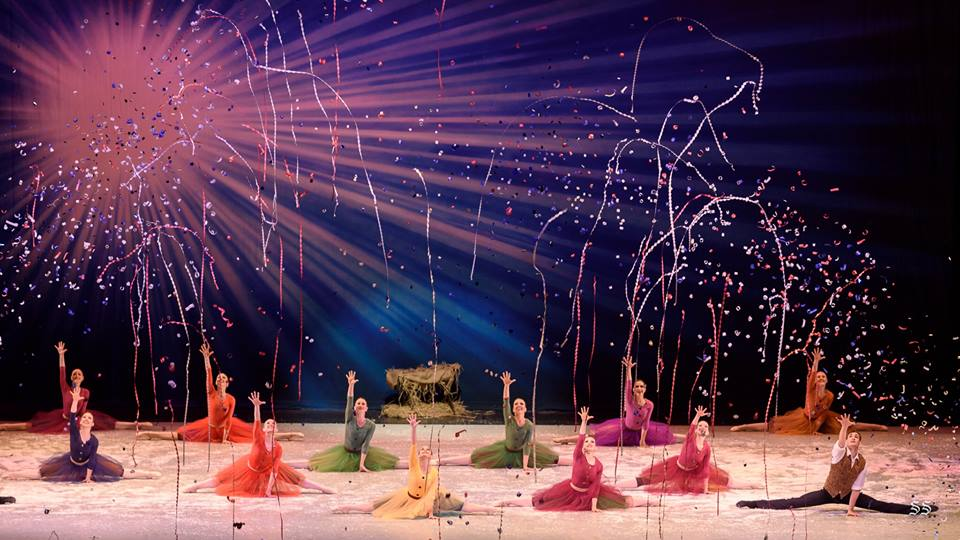 christmas, mic, ballet, broadway